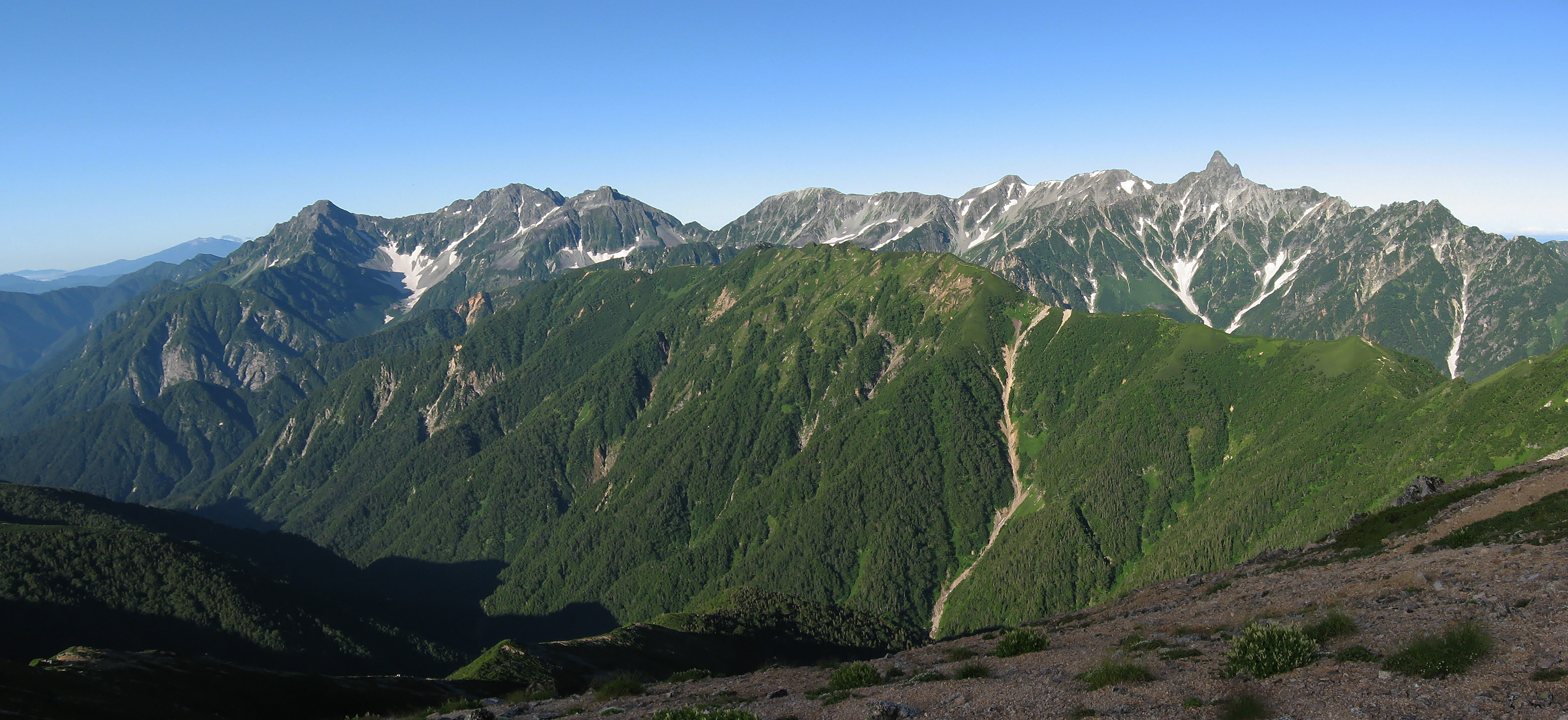 View of Mount Yari and Hotaka Mountains in the Hida Mountains, Japan